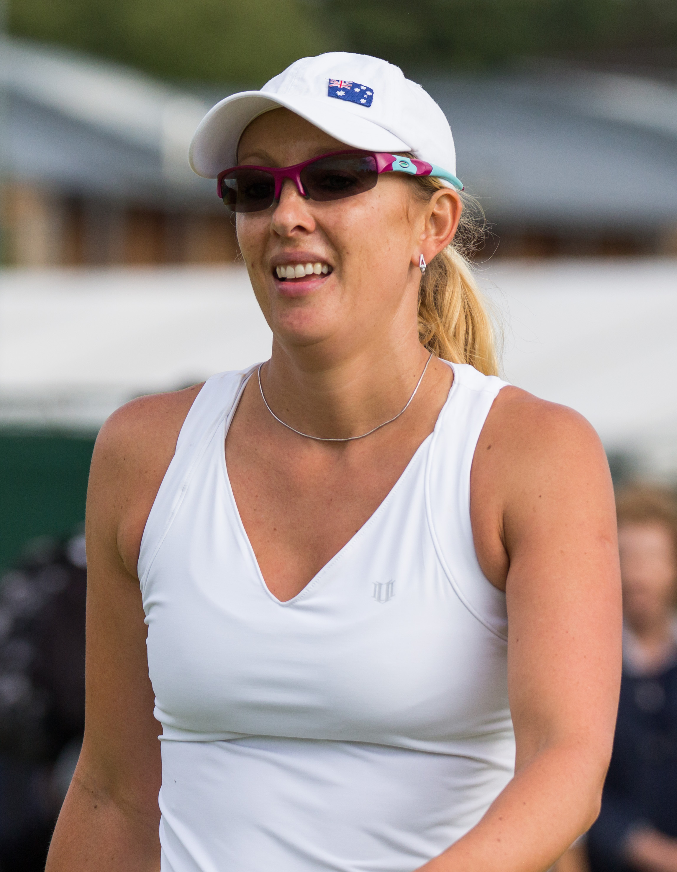 Anastasia competing in the first round of the 2015 Wimbledon Qualifying Tournament at the Bank of England Sports Grounds in Roehampton, England. The winners of three rounds of competition qualify for the main draw of Wimbledon the following week.